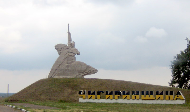 A monument is at an entrance in the district of Chigirinskiy